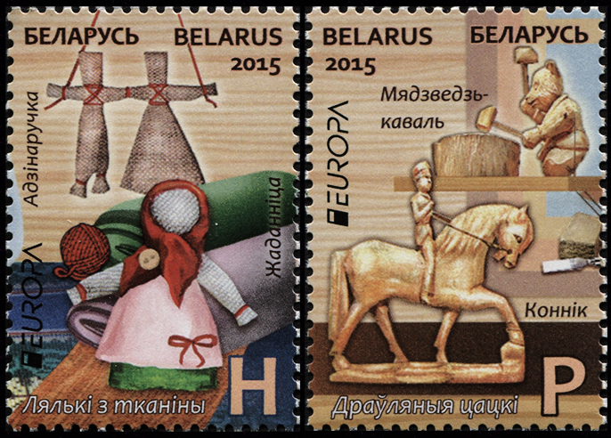 Postage stamps of Belarus, 2015. Old toys. EUROPA Issue